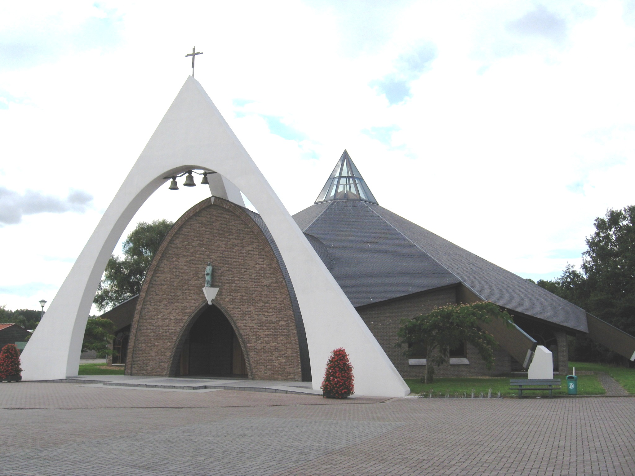 Church of the Blessed Virgin Mary (1993) in Beverst (Schoonbeek), Bilzen, Limburg, Belgium